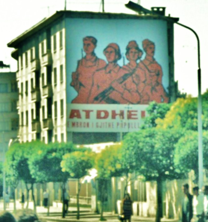 Albania in 1978 slogan